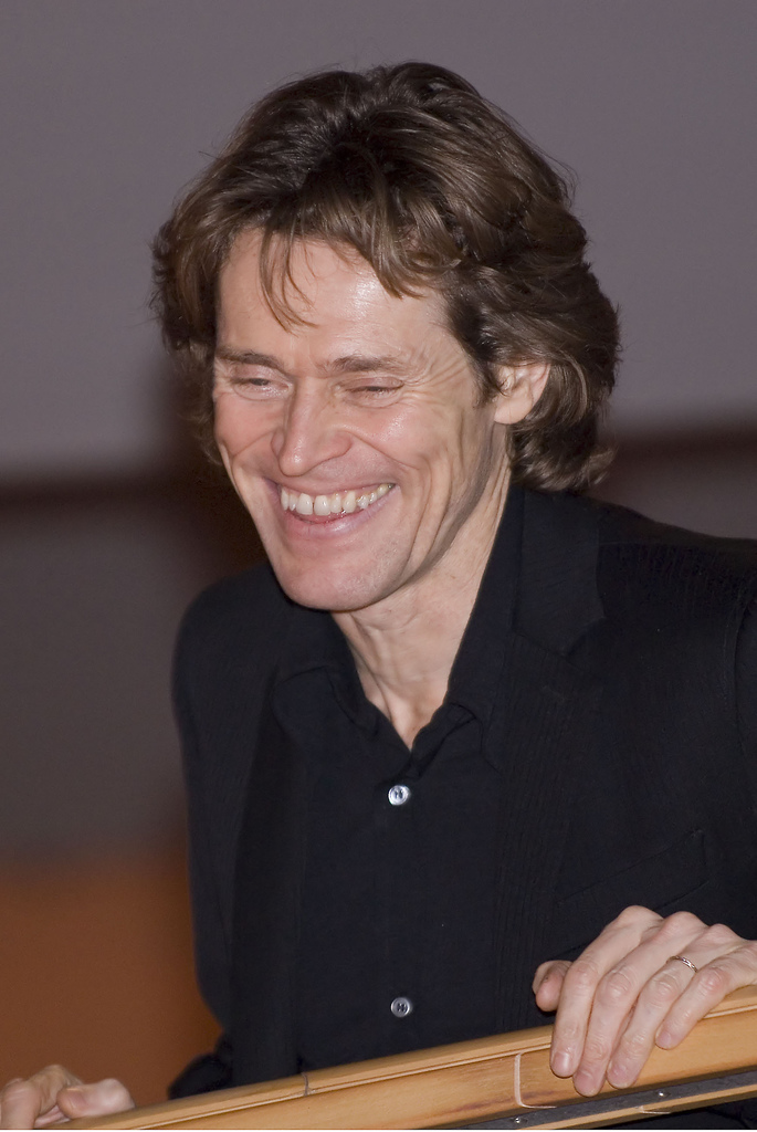 Willem Dafoe Premiere of "The Walker" at the Berlinalepalace, Marlene-Dietrich-Platz, Berlin